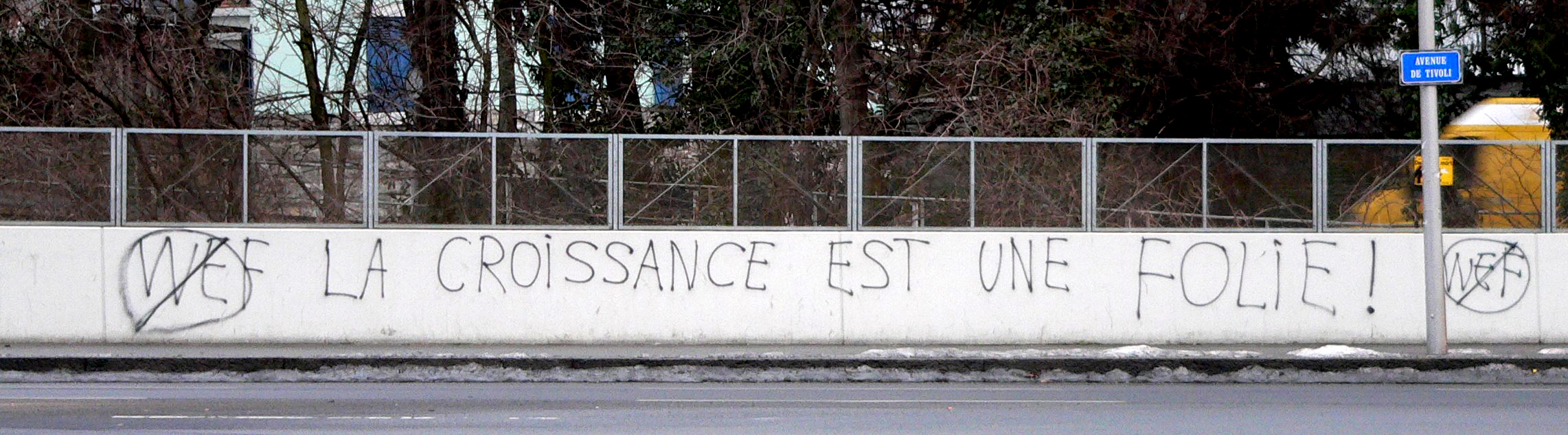 Anti-WEF grafitti in Lausanne, Switzerland, after the 2005 WEF in Davos. The writting reads: "La croissance est une folie !" ("Growth is madness"). Work by Rama